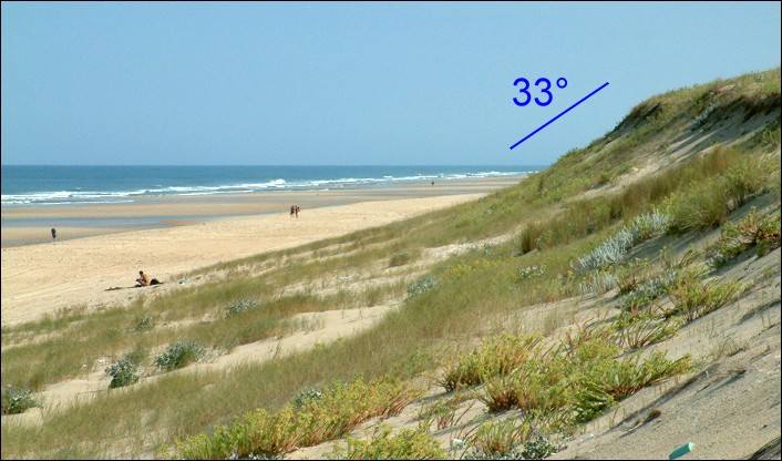 Angle of sand embarkment. Own work. Anton, 2006